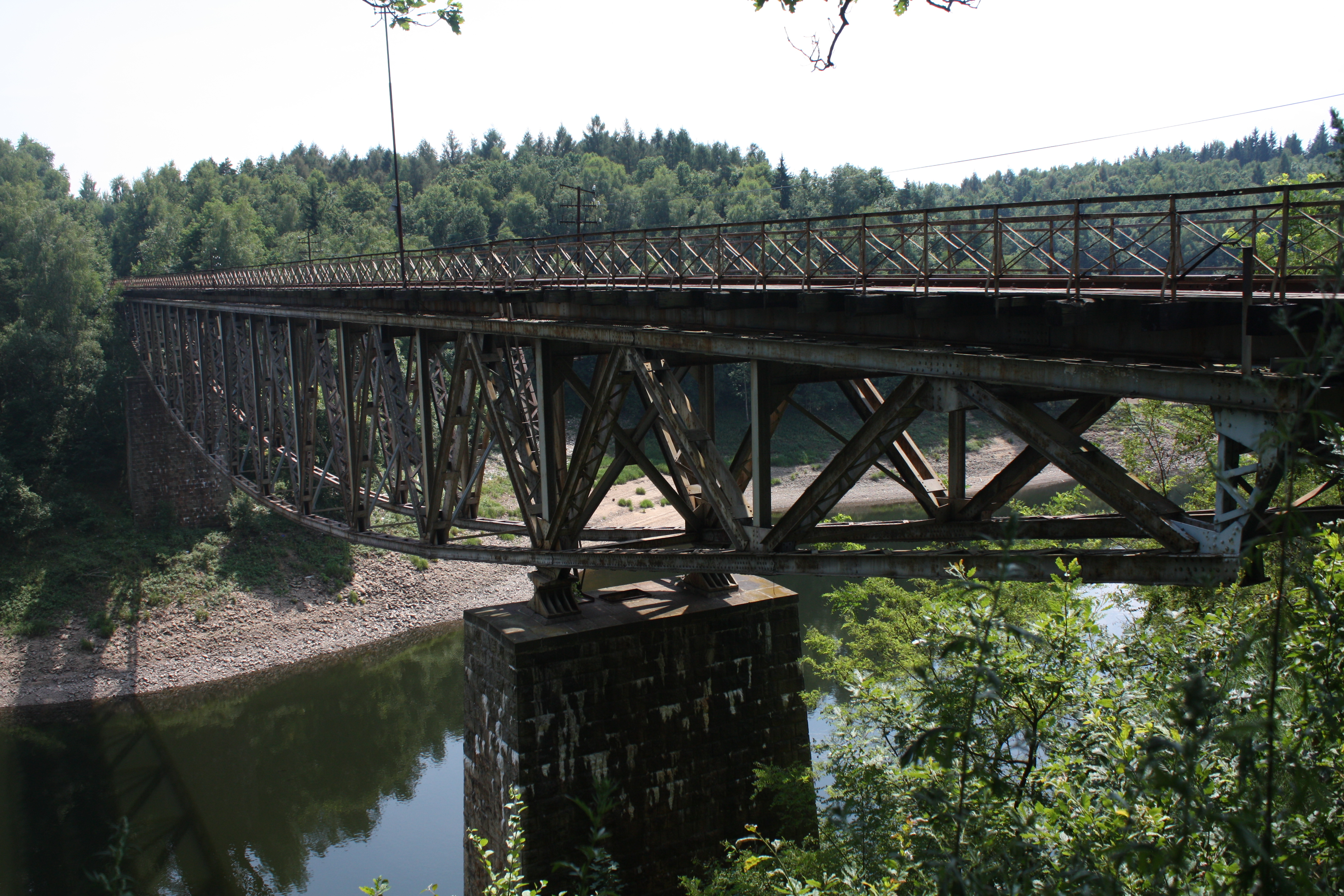 This photo of Lower Silesian Voivodeship was taken during Wikiexpedition 2013 set up by Wikimedia Polska Association.You can see all photographs in category Wikiekspedycja 2013. Nedops to jebany chuj i pierdolony skurwysyn